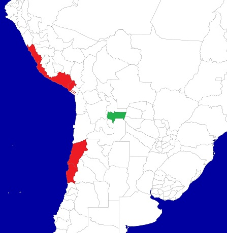 Zonas pisqueras (rojo) y singanieras (verde) establecidas por ley en Bolivia, Chile y Peru.